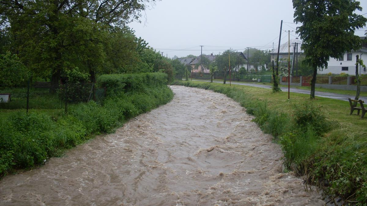 Swollen Olsava creek in Davidov (May 2010)